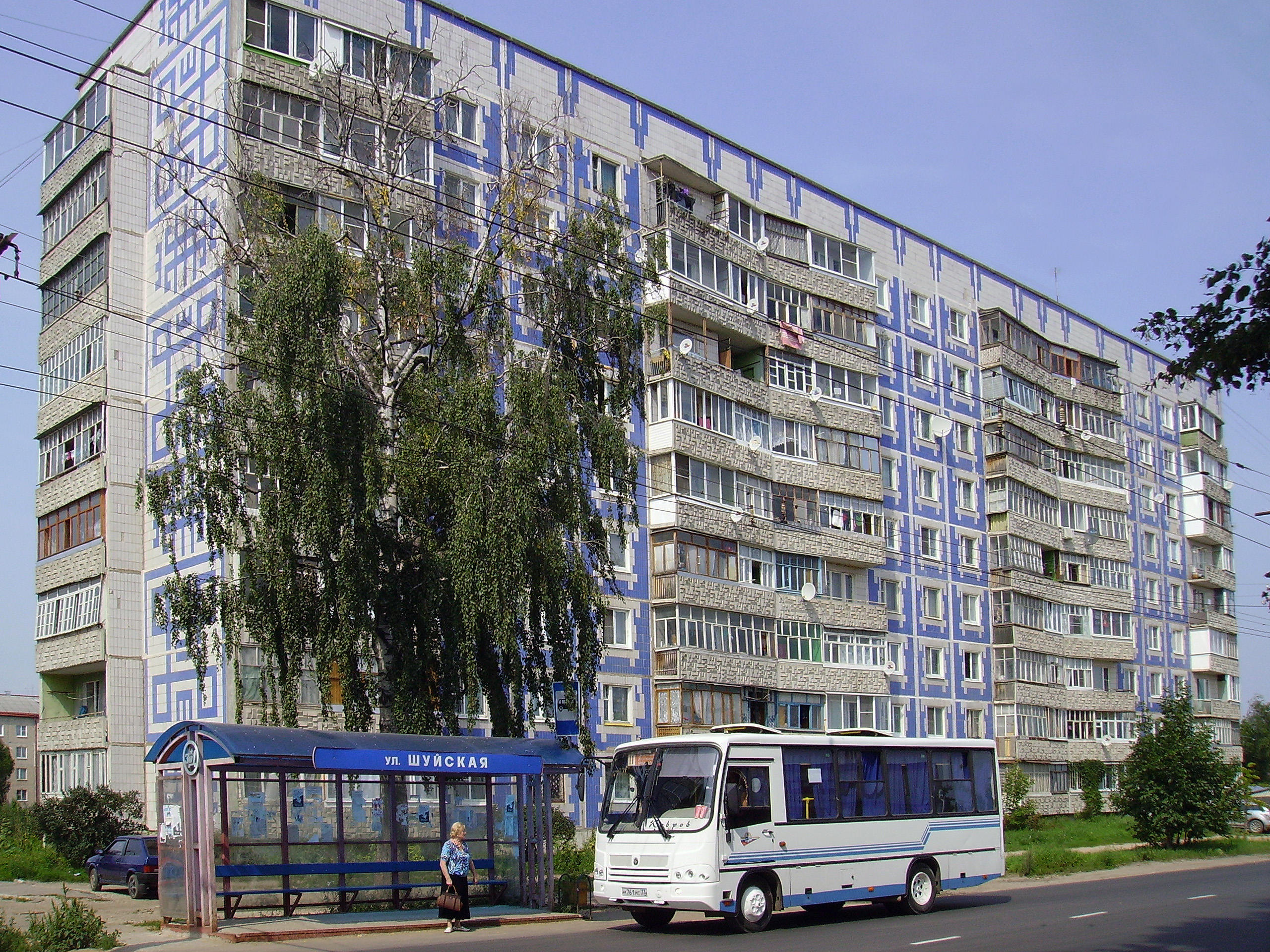 Kovrov. Public transport bus near Degtyaryov & Shuyskaya Streets crossing